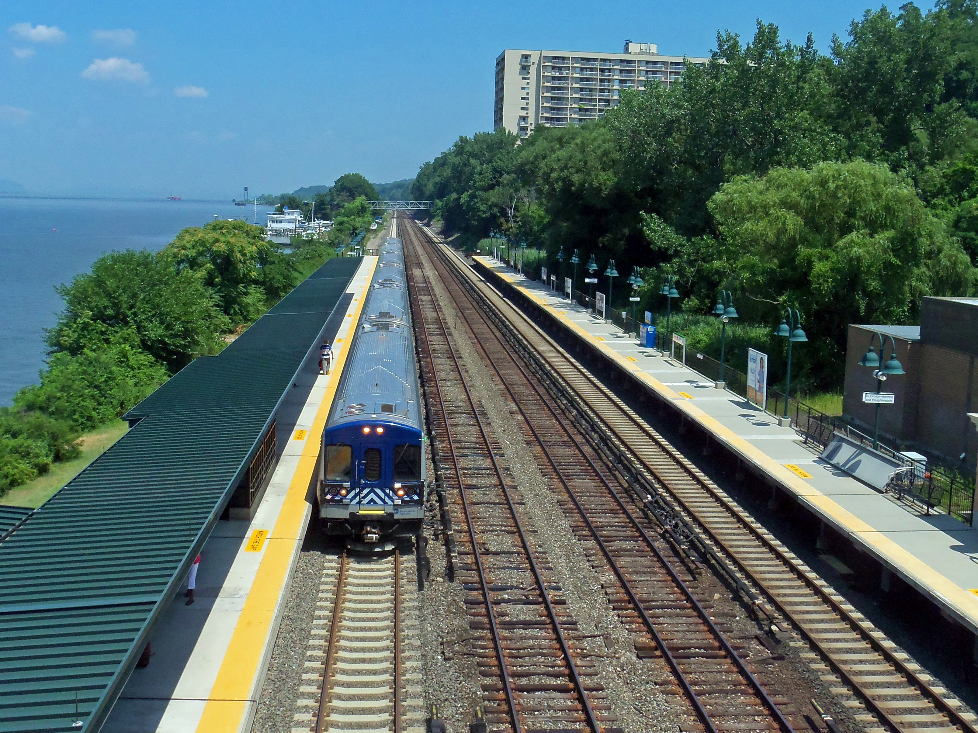 View north up the Hudson Line from overpass at Greystone Metro-North station, Yonkers, NY, USA